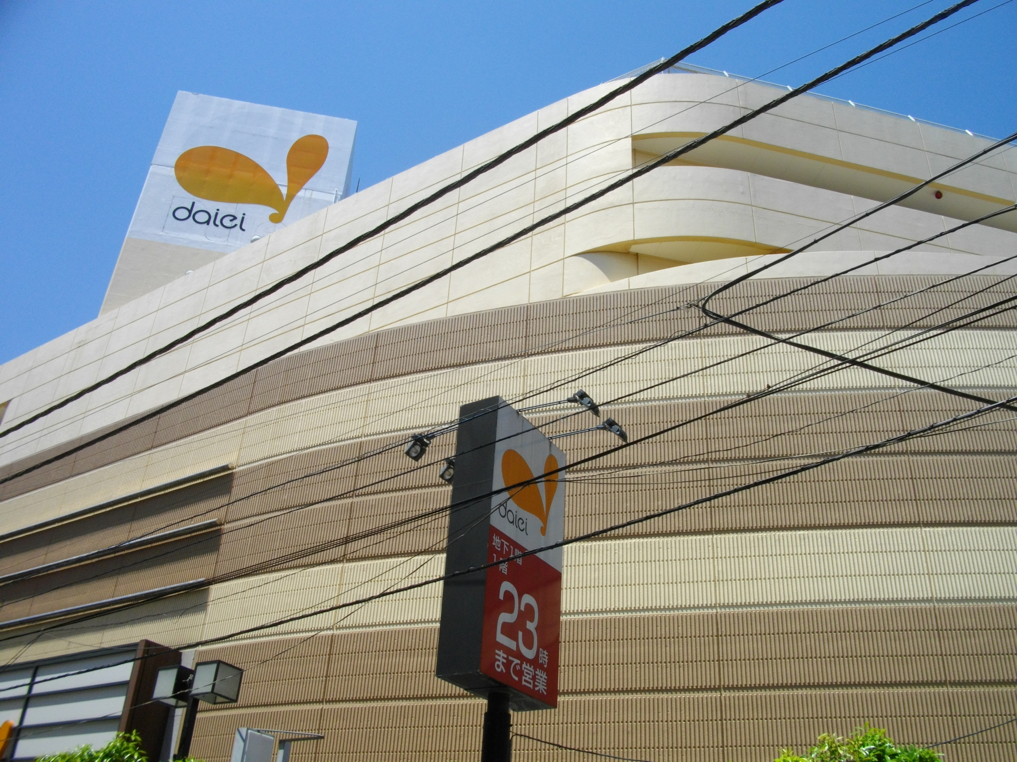 Daiei Narimasu